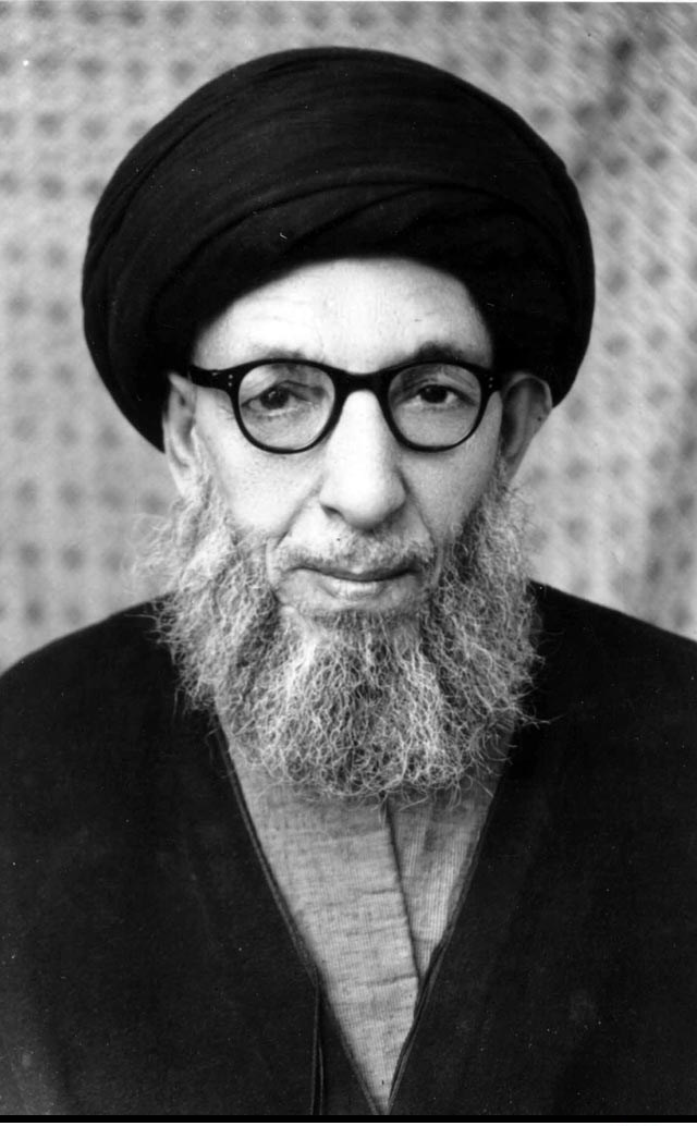 Grand ayatollah Muhsin al-Hakim